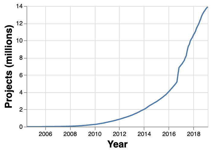 maven repository artifact growth